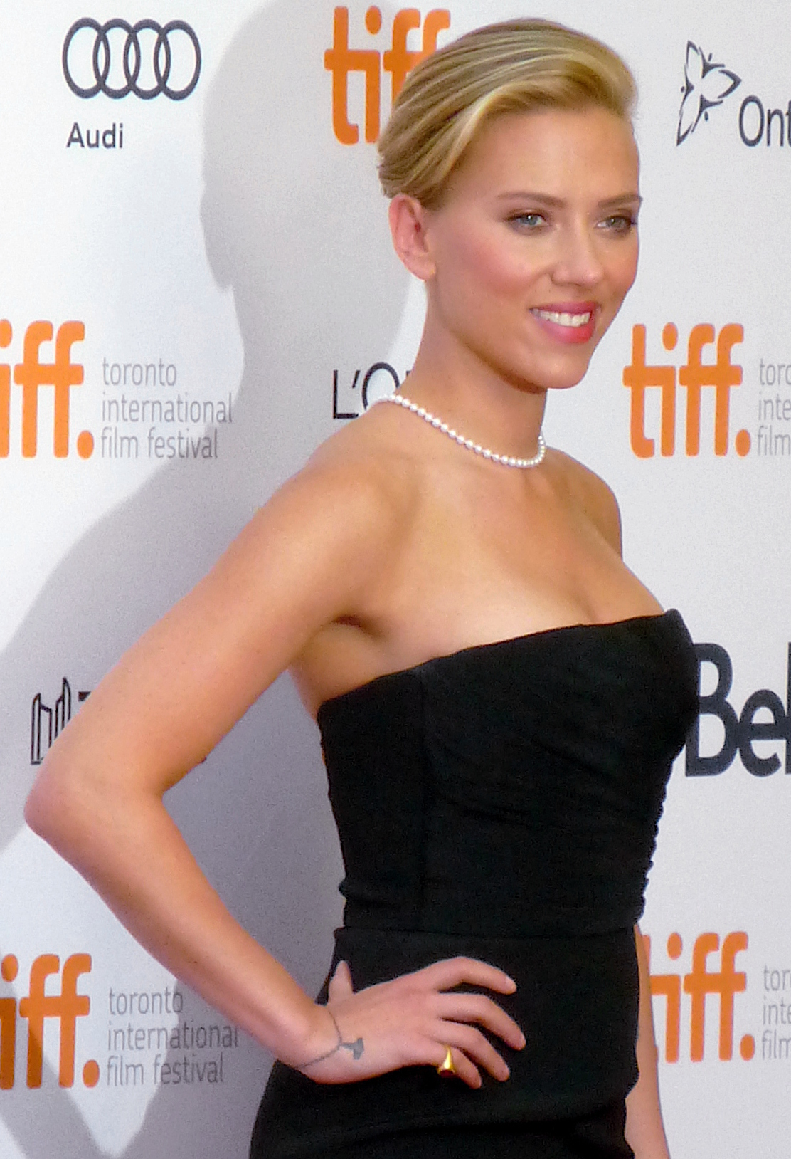 Scarlett Johansson at the Premiere of Don Jon, 2013 Toronto Film Festival